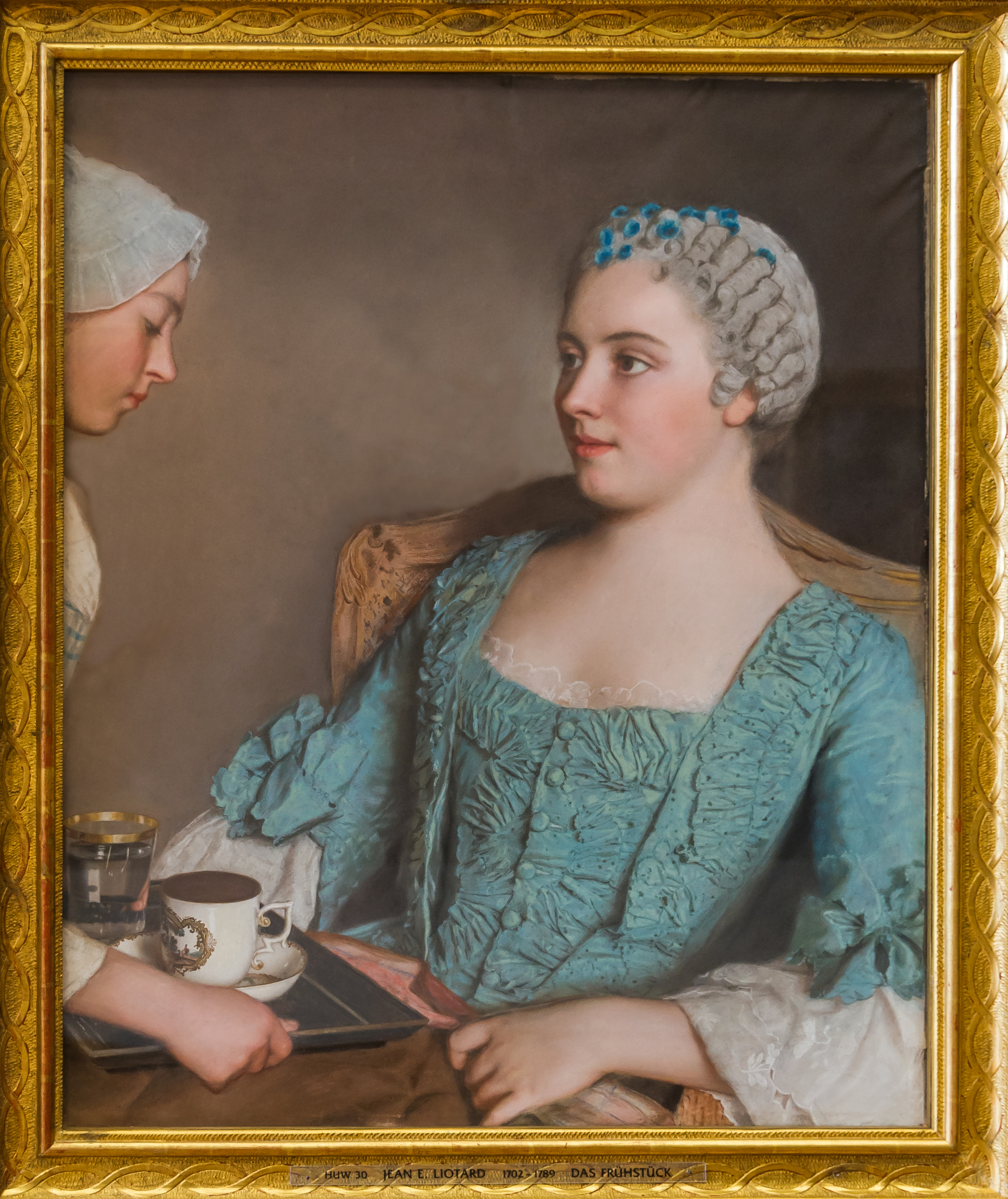 A servant is presenting a cup of chocolate and a glass of water to a young noble lady